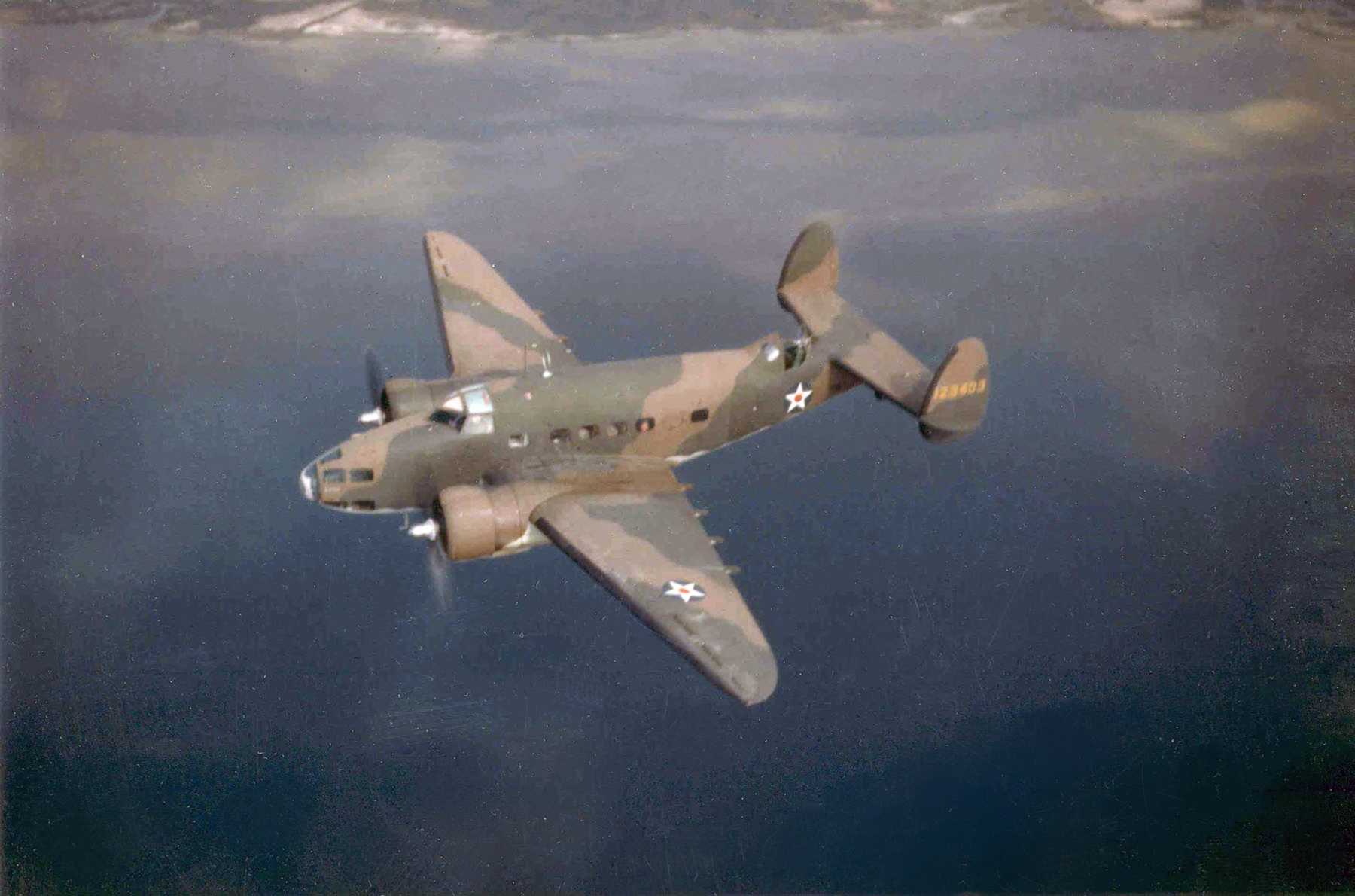 A U.S. Army Air Force Lockheed A-29-LO Hudson (s/n 41-23403) in flight.